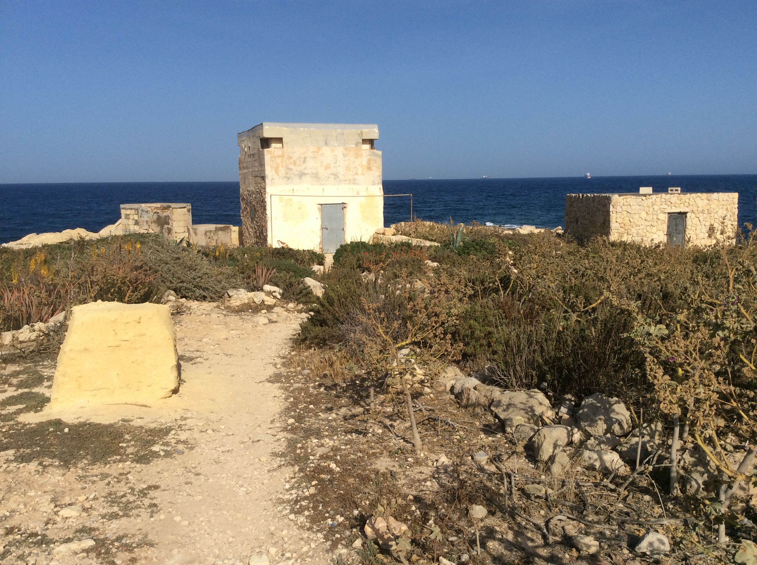 Zonqor Pillbox